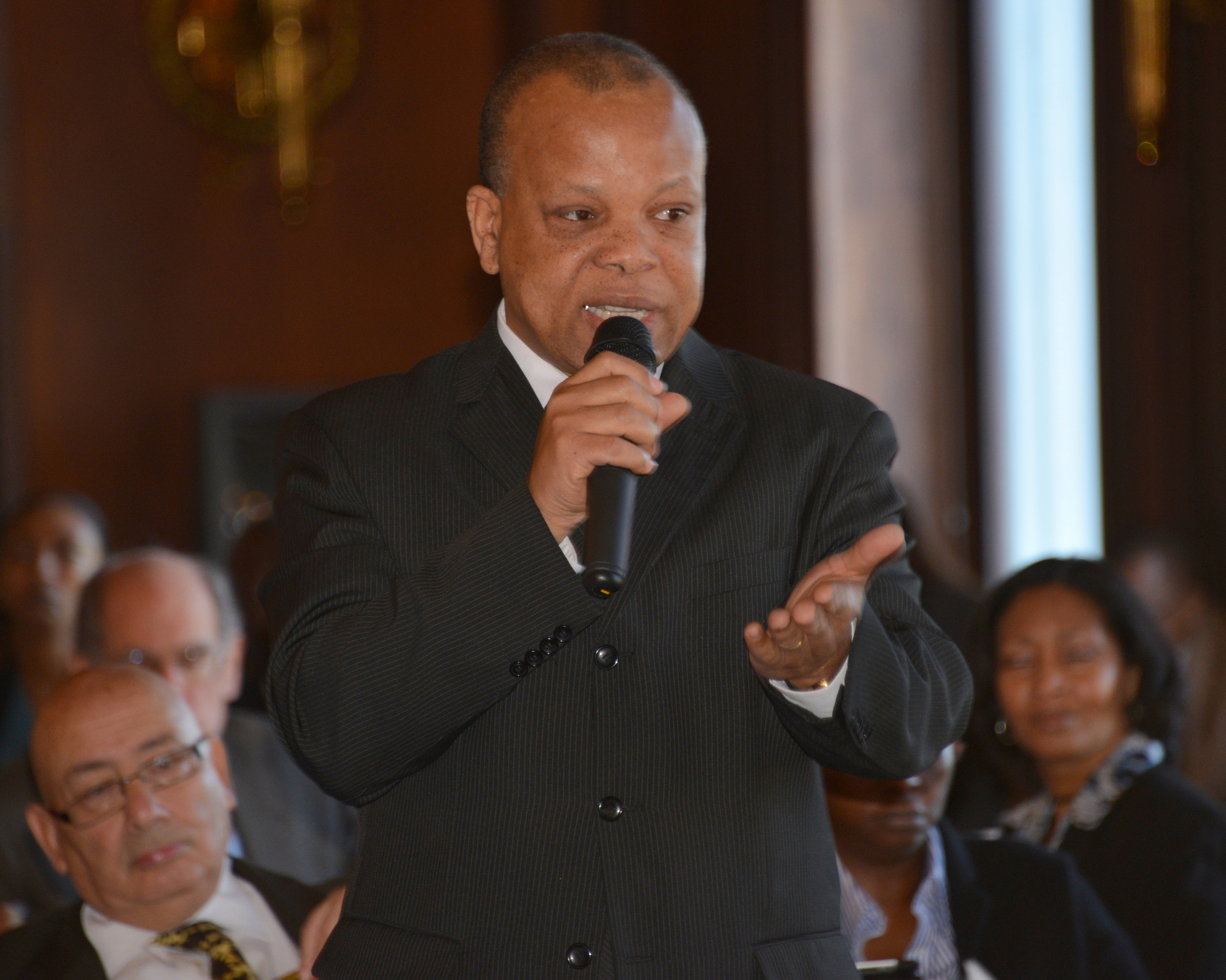 George Alula speaking during the AGOA breakfast, Capitol Hill, Washington, DC - USA